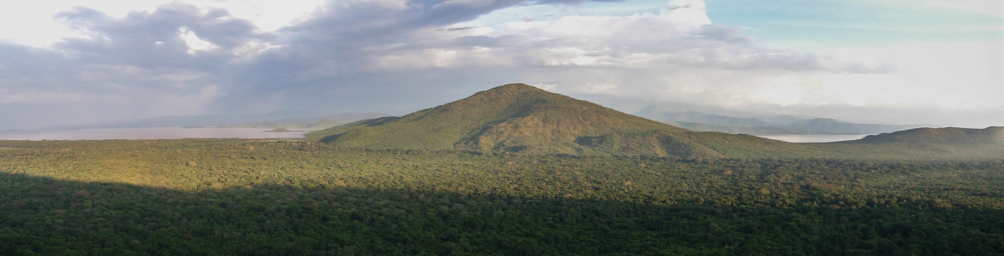 Nechisar National Park, Lake Abaya and Lake Chamo seen from Arba Minch, Ethiopia